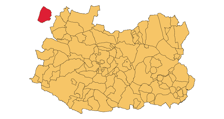 Map of Anchuras